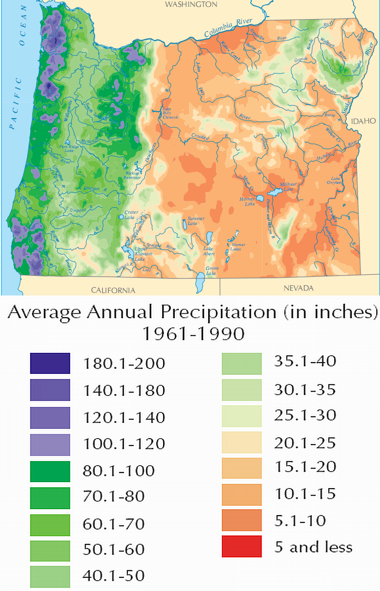 Map depicting the average annual precipitation (in inches) for Oregon from 1961 to 1990.